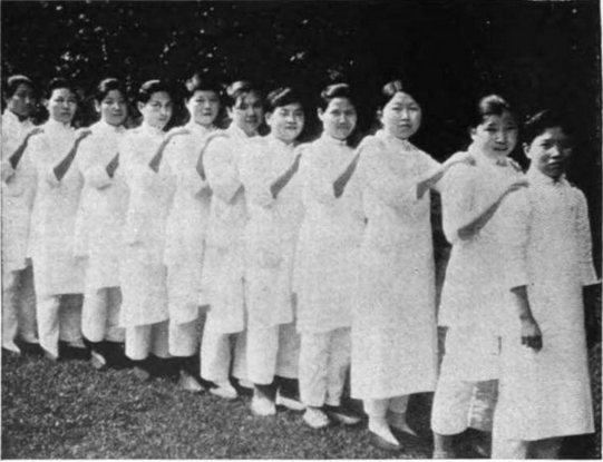 Nurses at Margaret Williamson Hospital, Shanghai, China (Woman's Union Missionary Society)